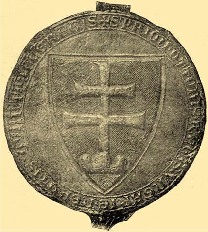 Otto V of Bavaria